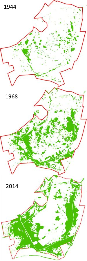 Area development of the Schwenninger Moss Forest in the years 1944, 1968 and 2014